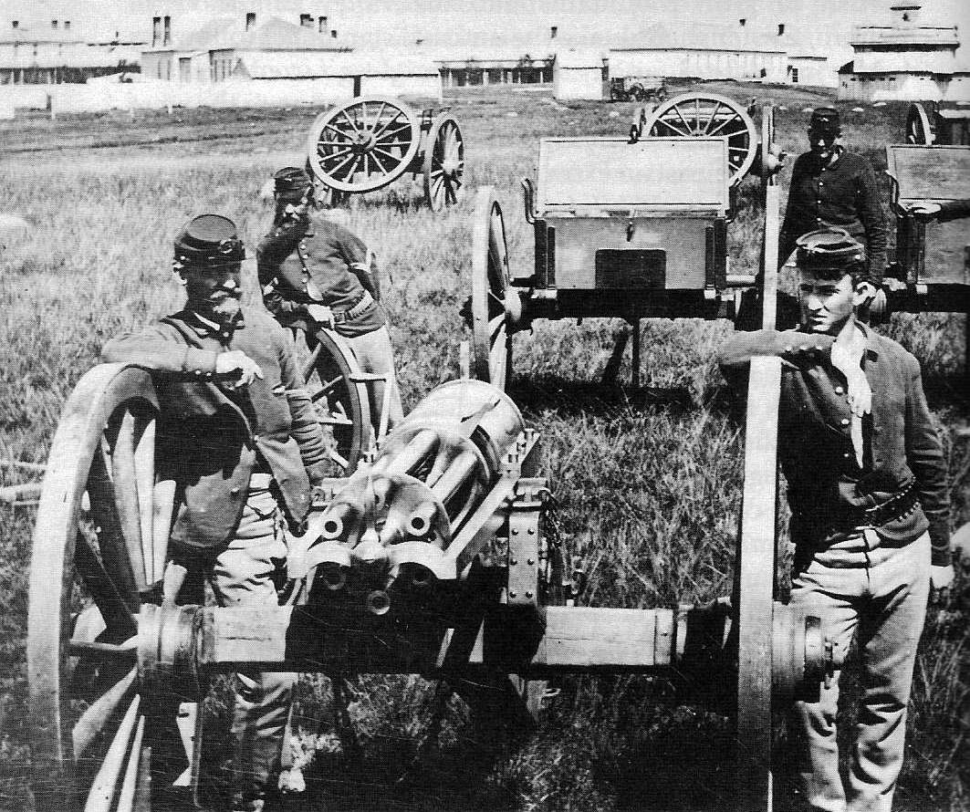 Gatling gun battery, Fort Lincoln, Dakota Territory, showing military quarters and blockhouse.